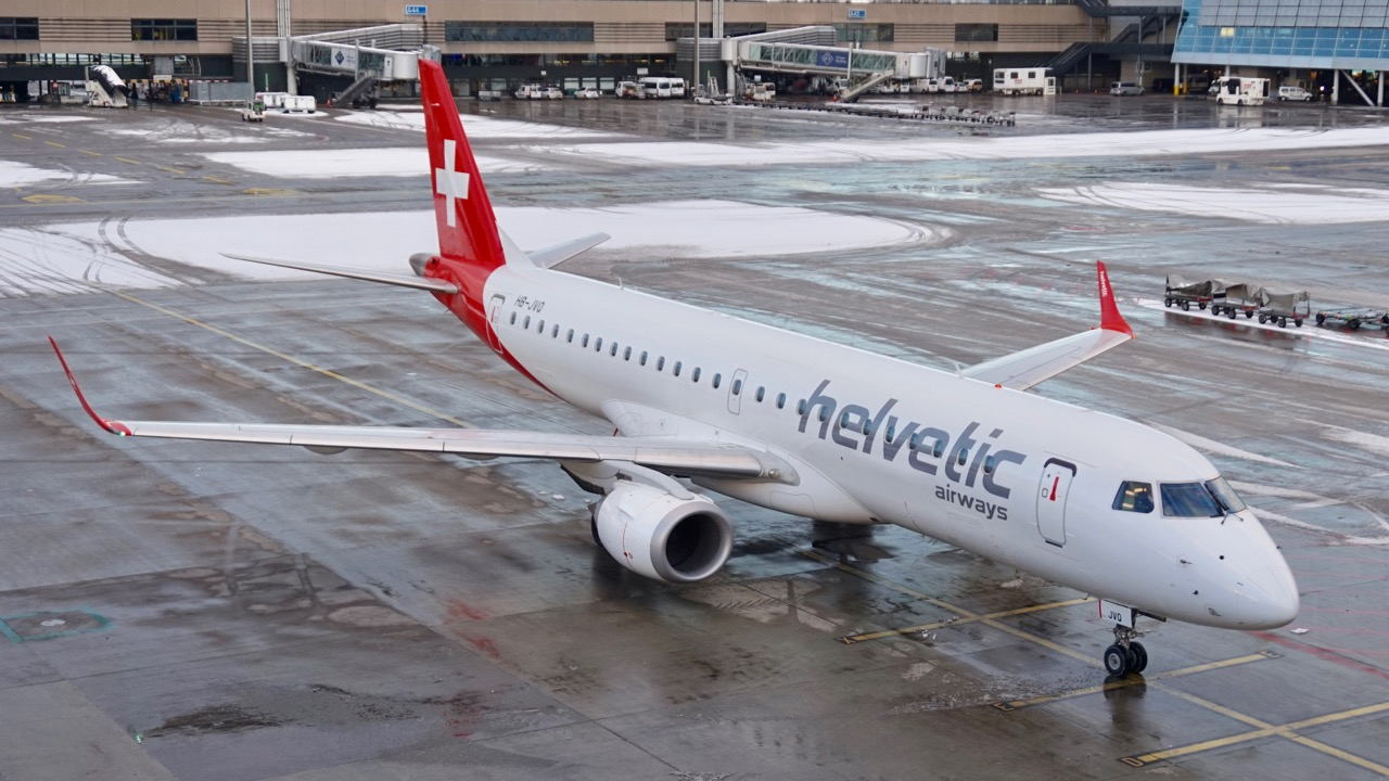 Helvetic Airways, Embraer E-Jet E190, HB-JVQ, 5. January 2017